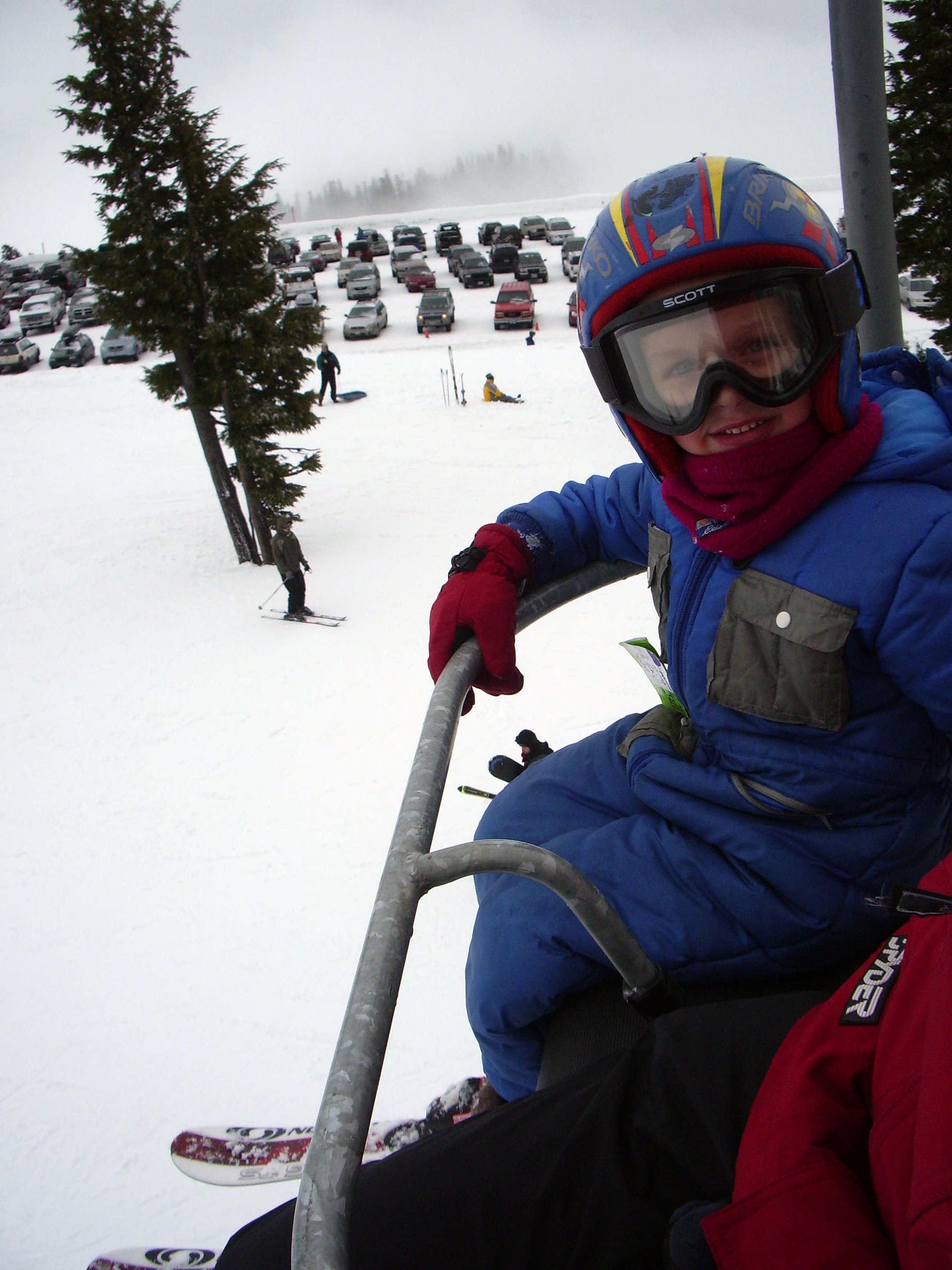 Chair lift restraining bar holding a happy 6-year-old passenger. This is the Bruno lift at Timberline Lodge ski area